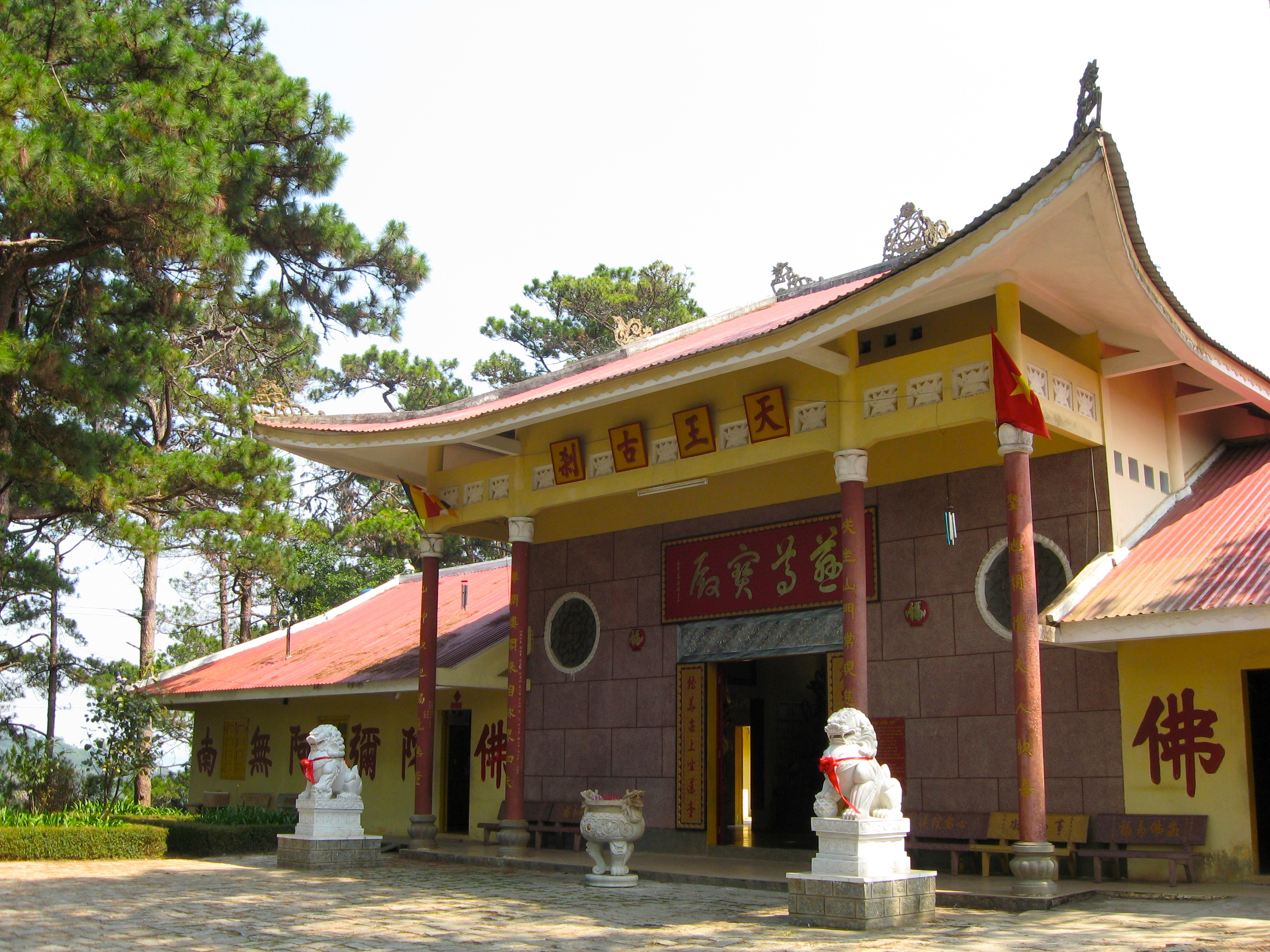 Thien Vuong Co Sat Pagoda